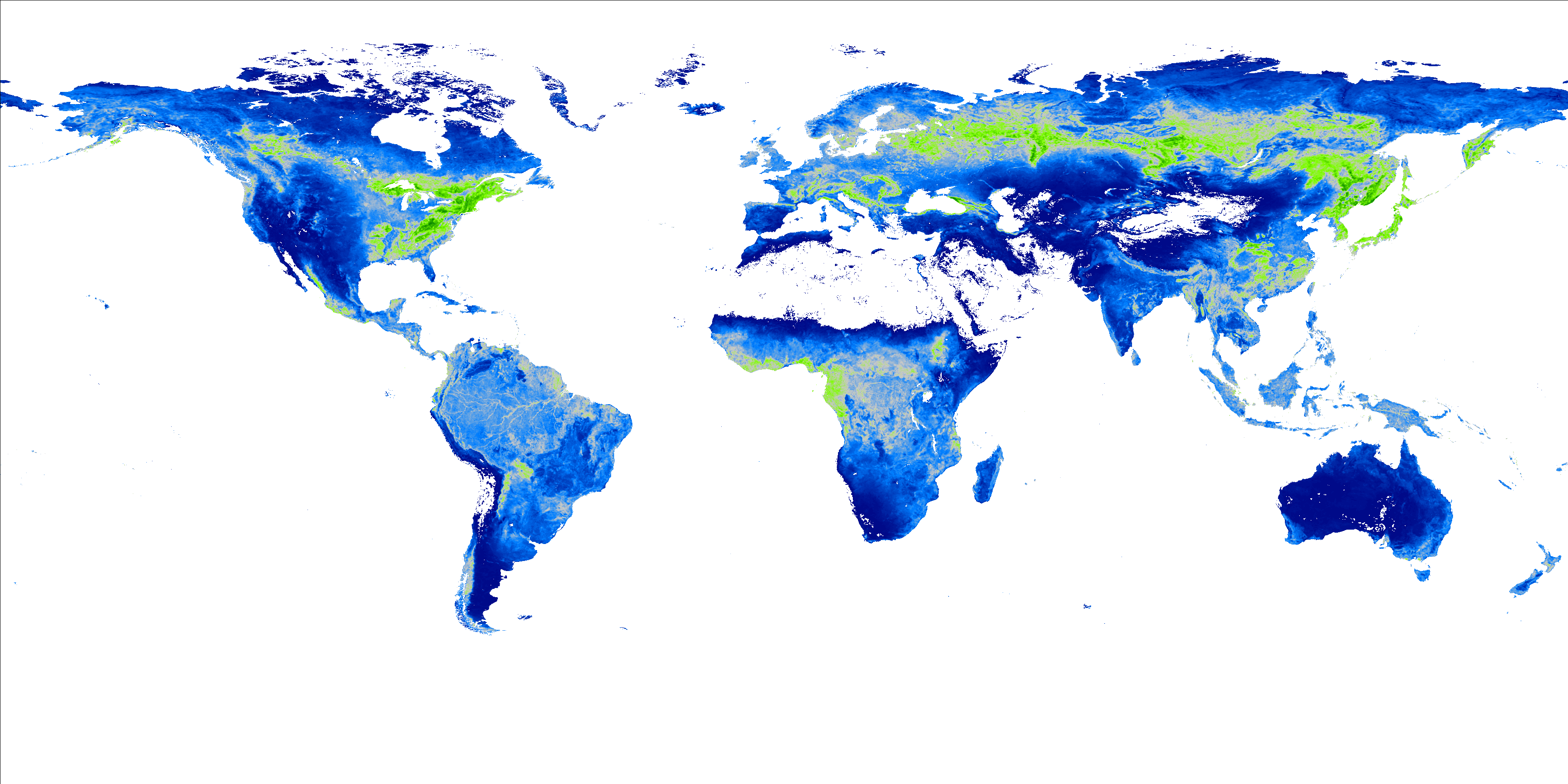 Mean long term Leaf Area Index (standard deviation)